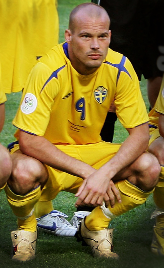 Fredrik Ljungberg, Swedish footballer, during the 2006 World Cup. Cropped from team photo.